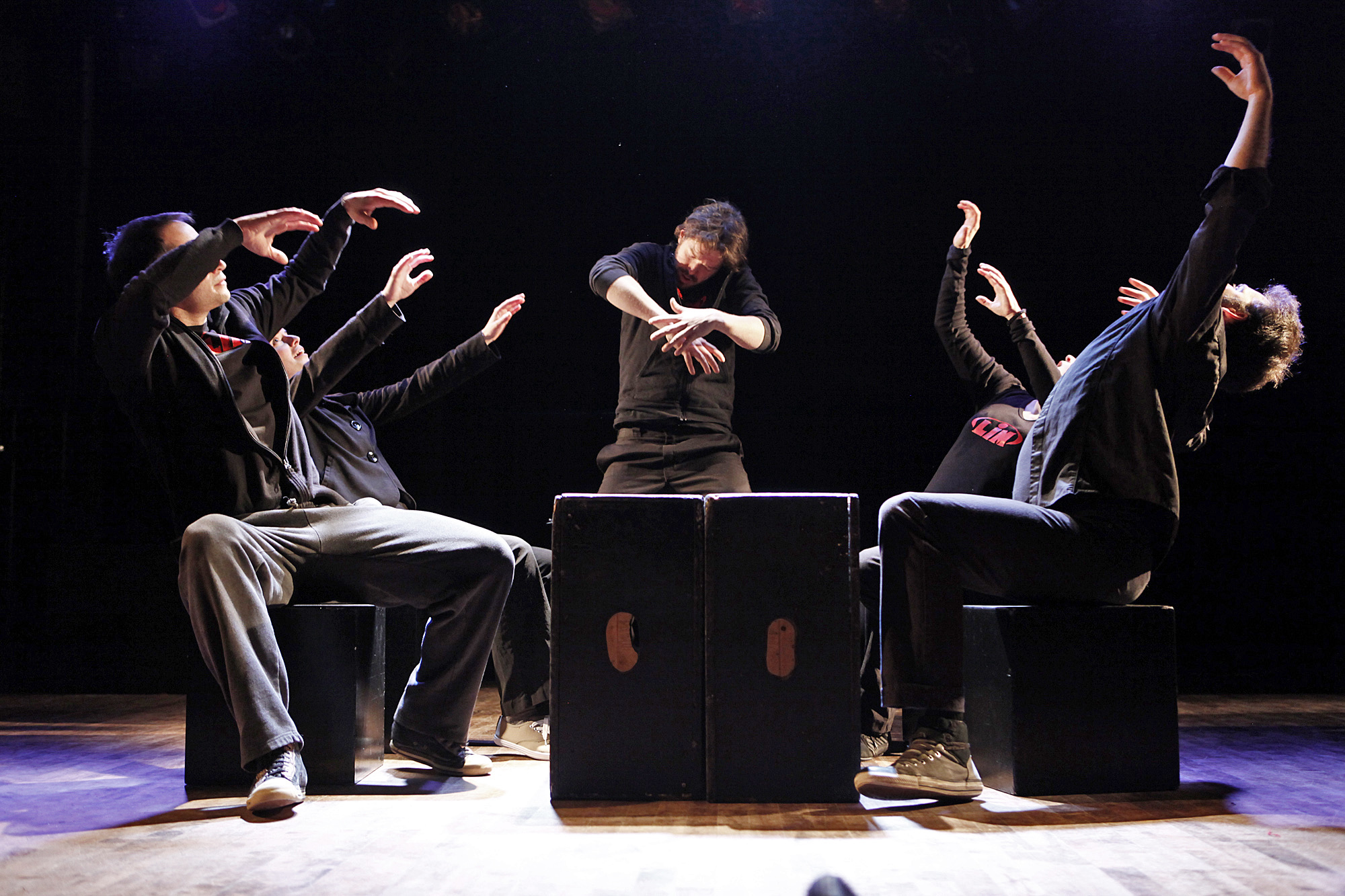 (DESCRIPTION). The Ligue d'improvisation montréalaise (LIM) is a league of improvisational theater based in Montreal, Quebec, Canada.